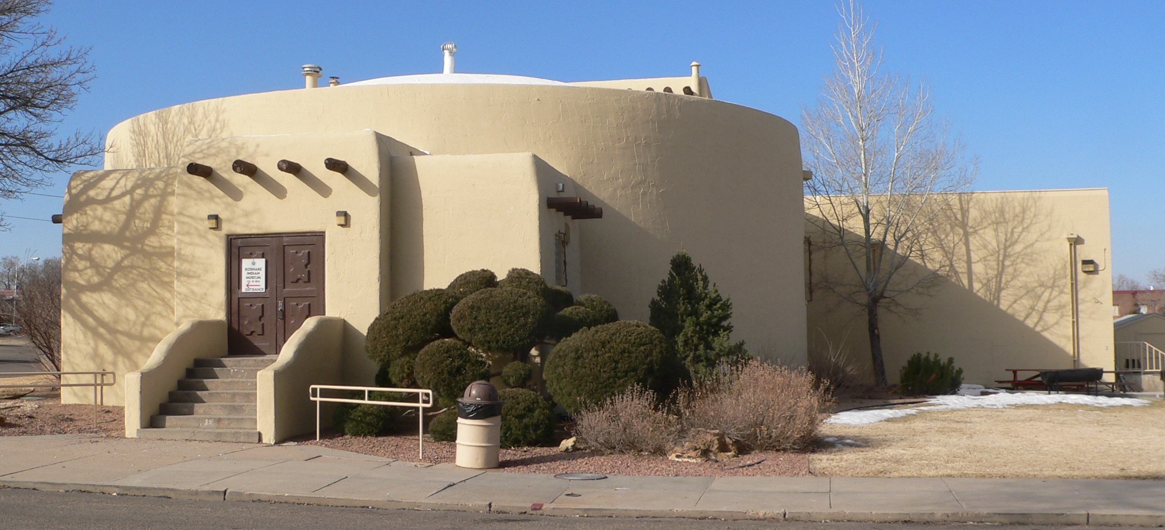 Koshare Indian Museum, located at northwest corner of 18th Street and Santa Fe Avenue in La Junta, Colorado, on the campus of Otero Junior College; seen from the northeast, across Santa Fe.